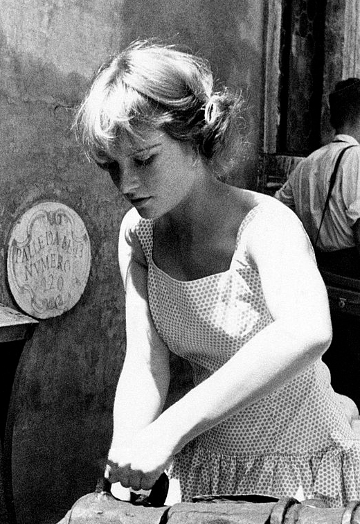 French actress Mijanou Bardot (Marie-Jeanne Bardot) observing a breech-loading firearm. She is the sister of French actress Brigitte Bardot (Brigitte Anne Marie Bardot). Rome, 5th August 1958.